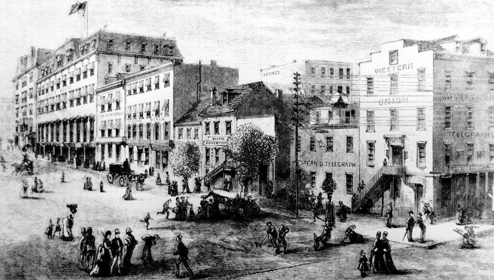 "Newspaper Row, Washington, D.C." Engraving from "Harper's New Monthly Magazine" (January 1874). source